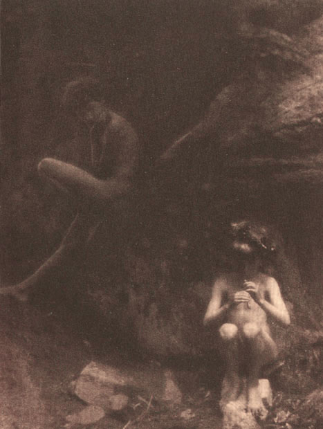 Pipes of Pan